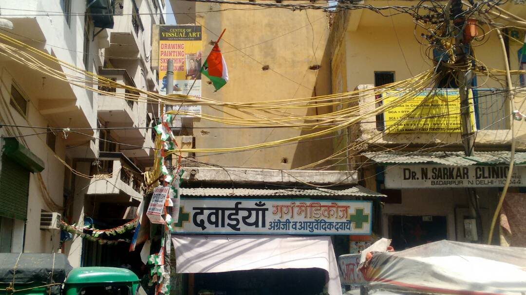 Badapur Main Market is ideal for it's local day to day commodities. Medical Shops, Restaurants and Visual Art Institutions & Study Centres are available